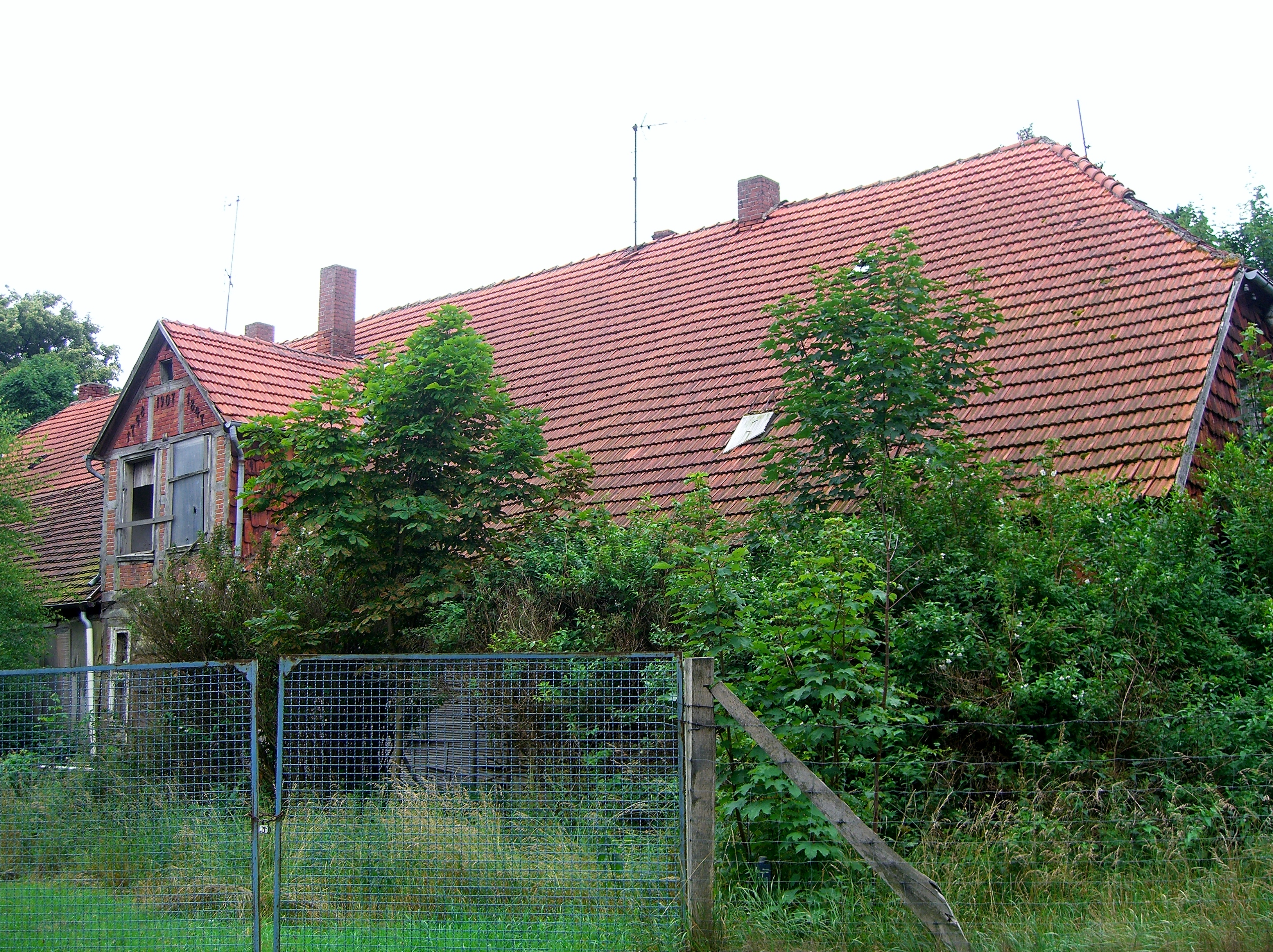 abandoned monor house in Reppentin